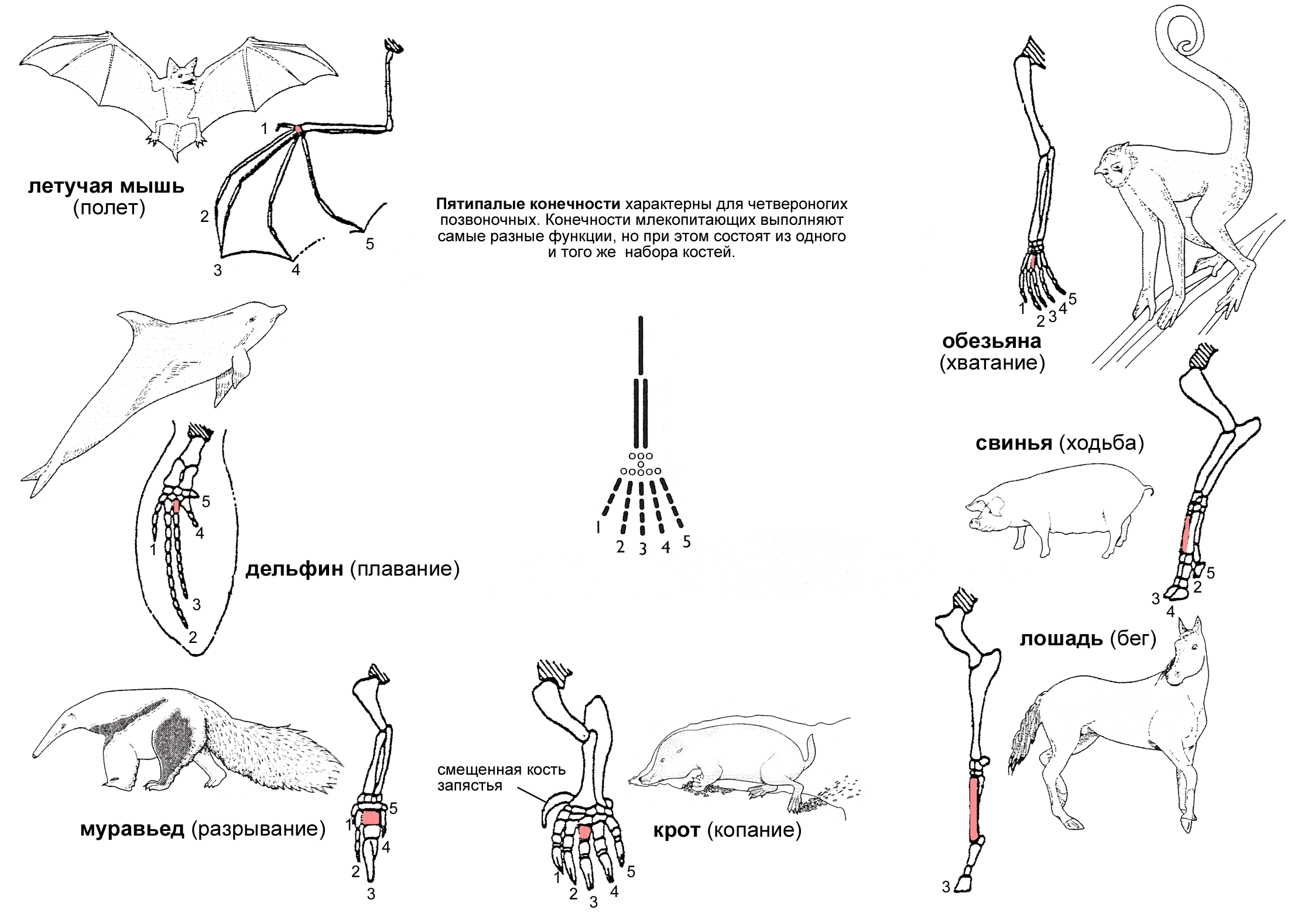 Created by Jerry Crimson Mann 06:25, 2 August 2005 (UTC).